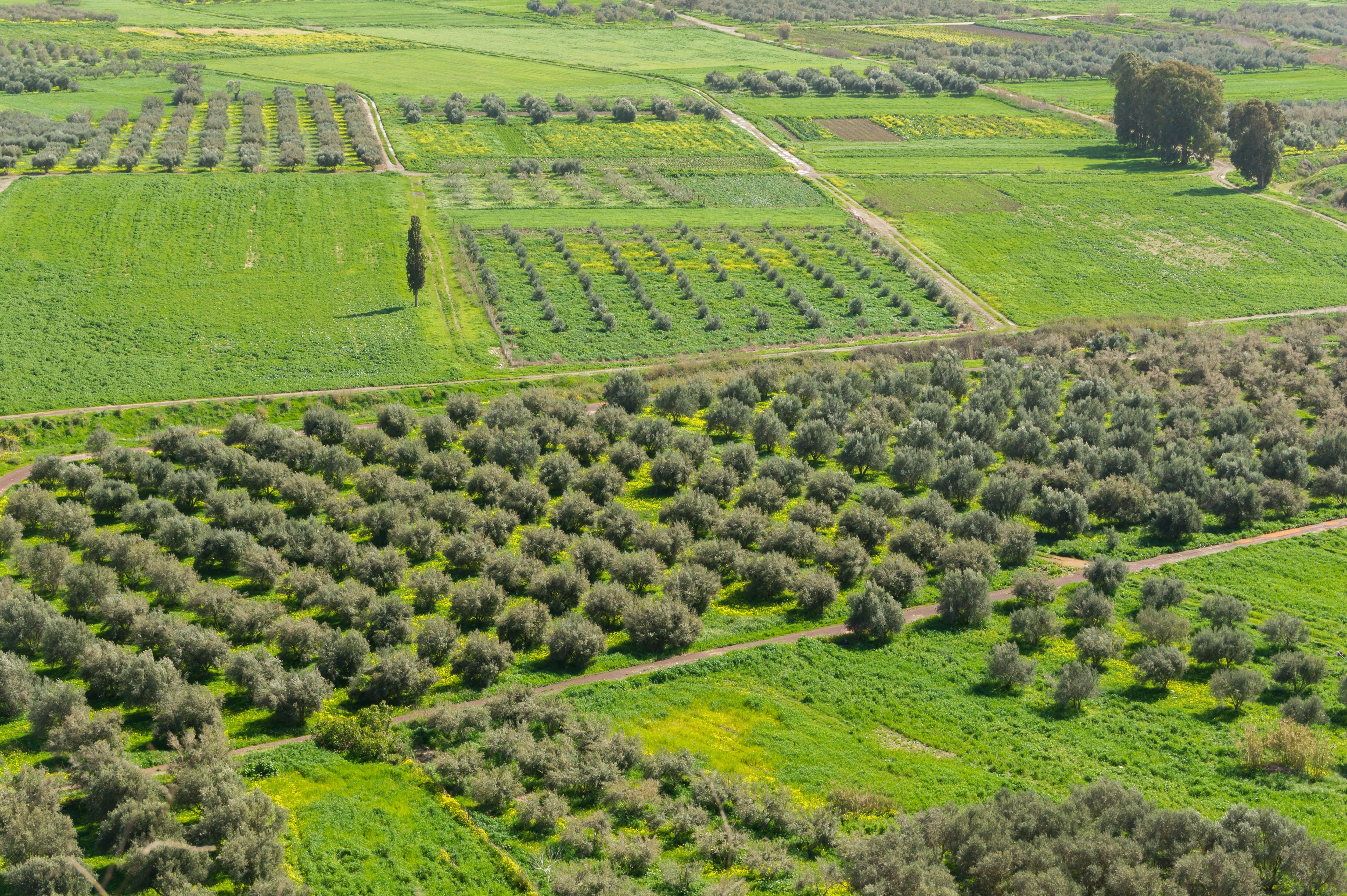 Fields in the Messara plain, seen from Phaistos, Crete, Greece.